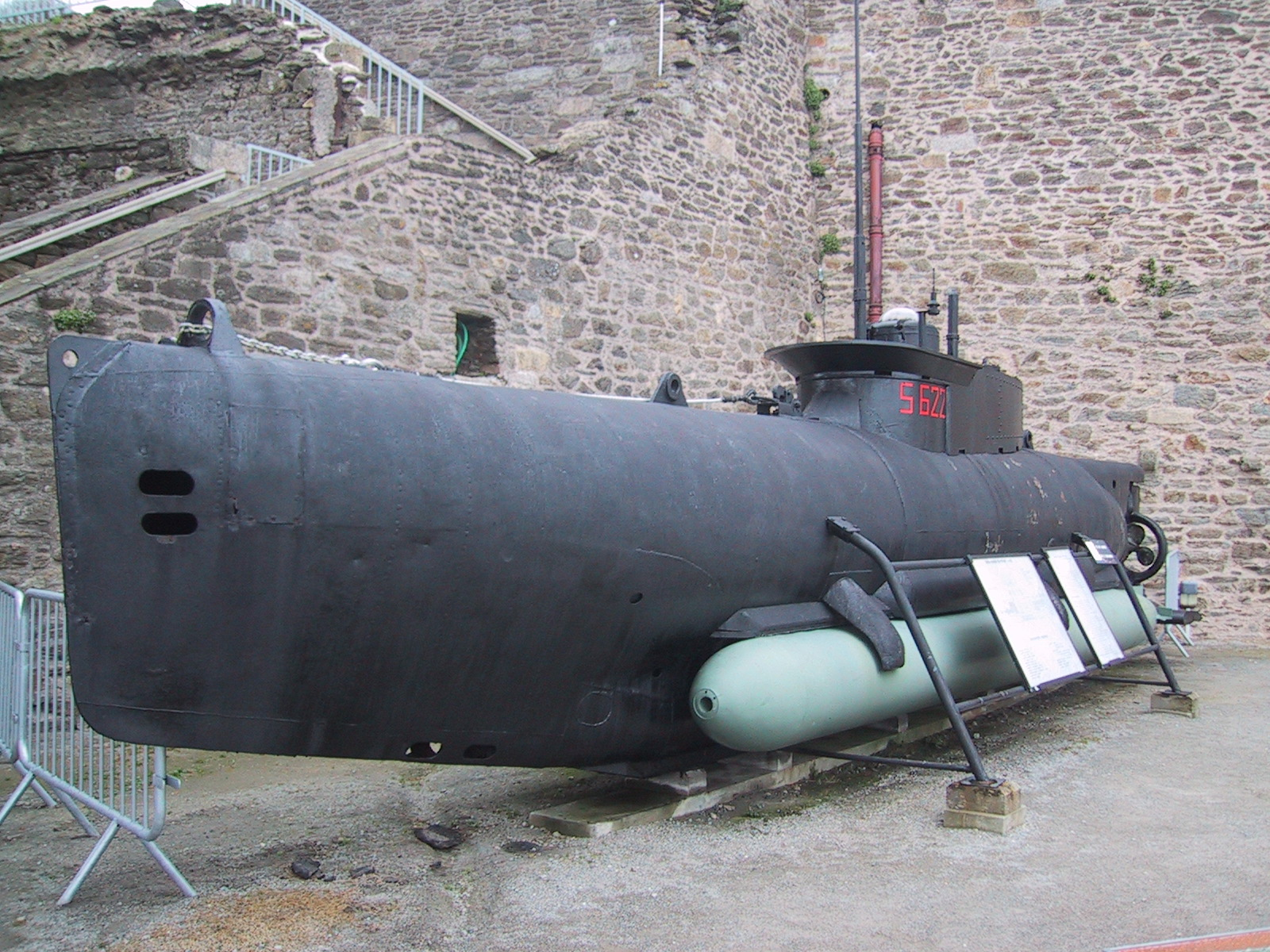 S622 french small submarine, "Seehund" type (german origin), exposed in the Musée national de la Marine in Brest, France.